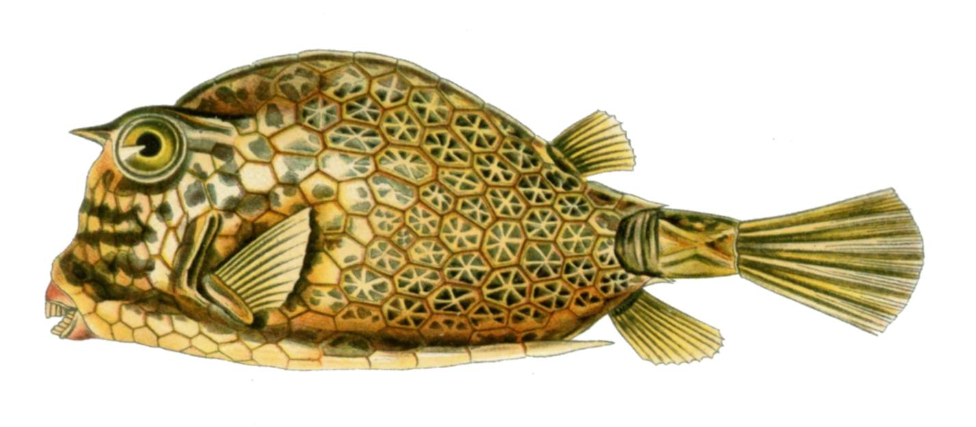 Scrawled Cowfish